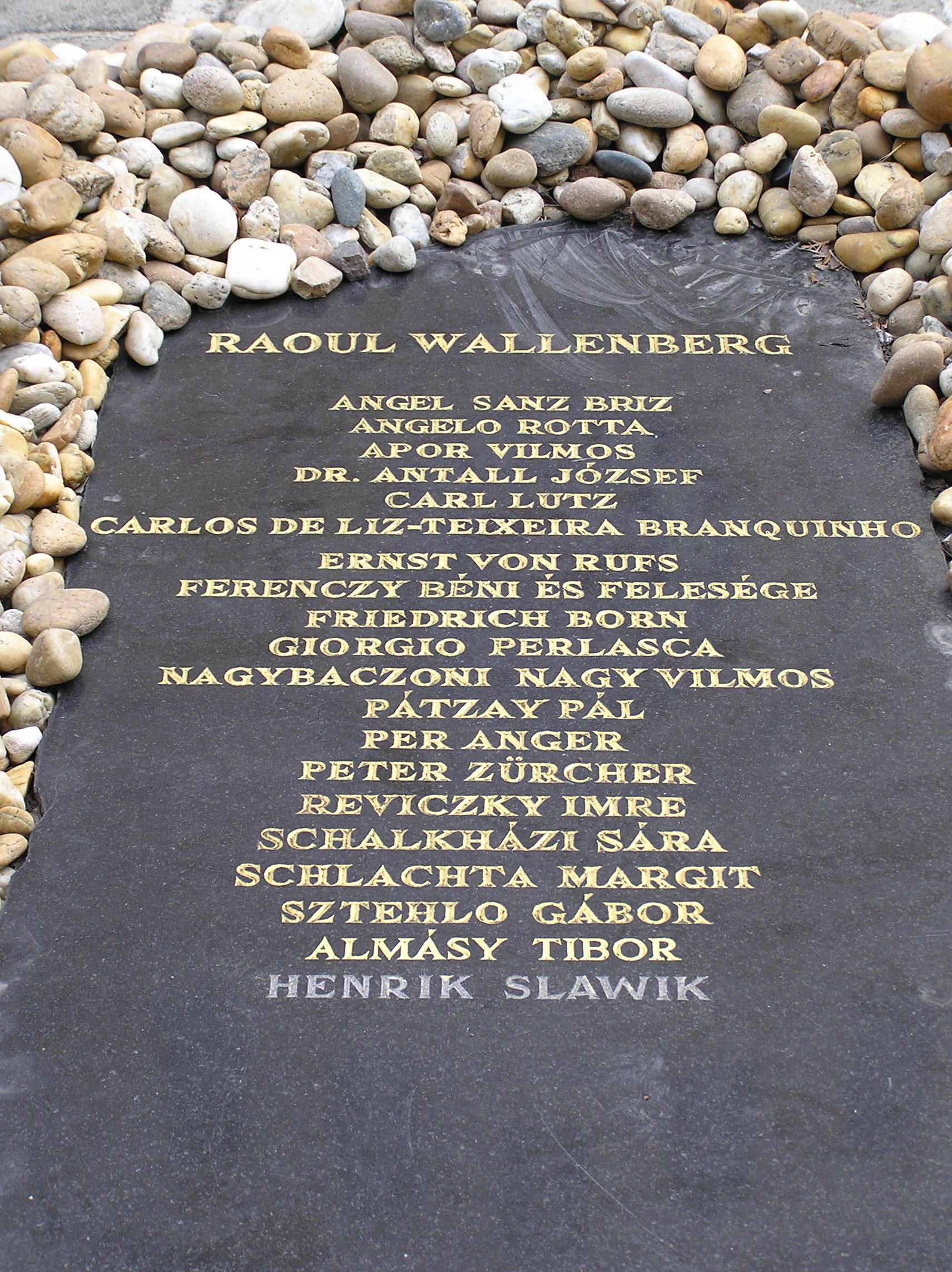 The memorial of the Righteous Among the Nations, in the park Raoul Wallenberg (Budapest)